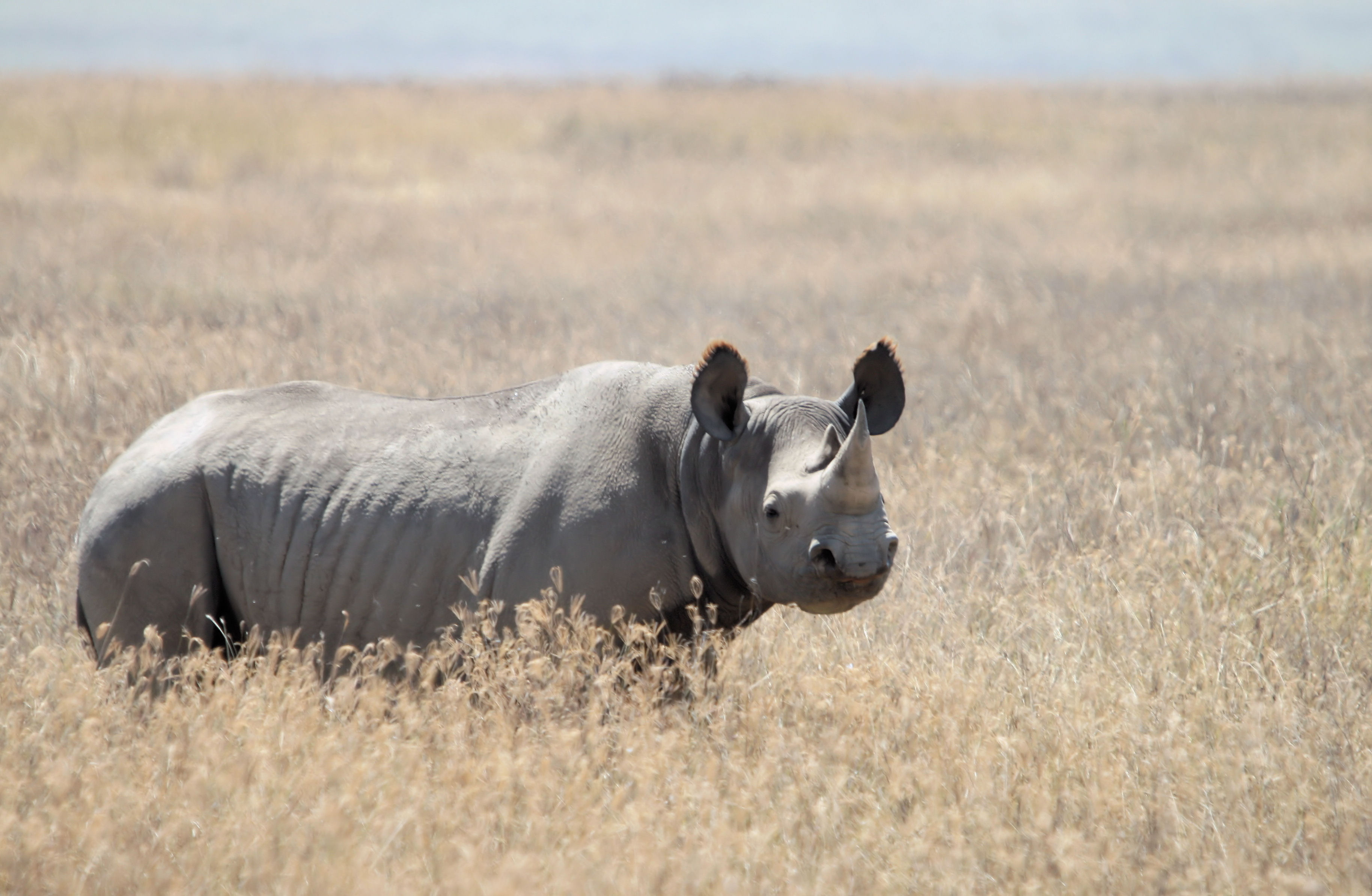 Black Rhinoceros (Diceros bicornis), picture taken at Ngorongoro Conservation Area, Tanzania